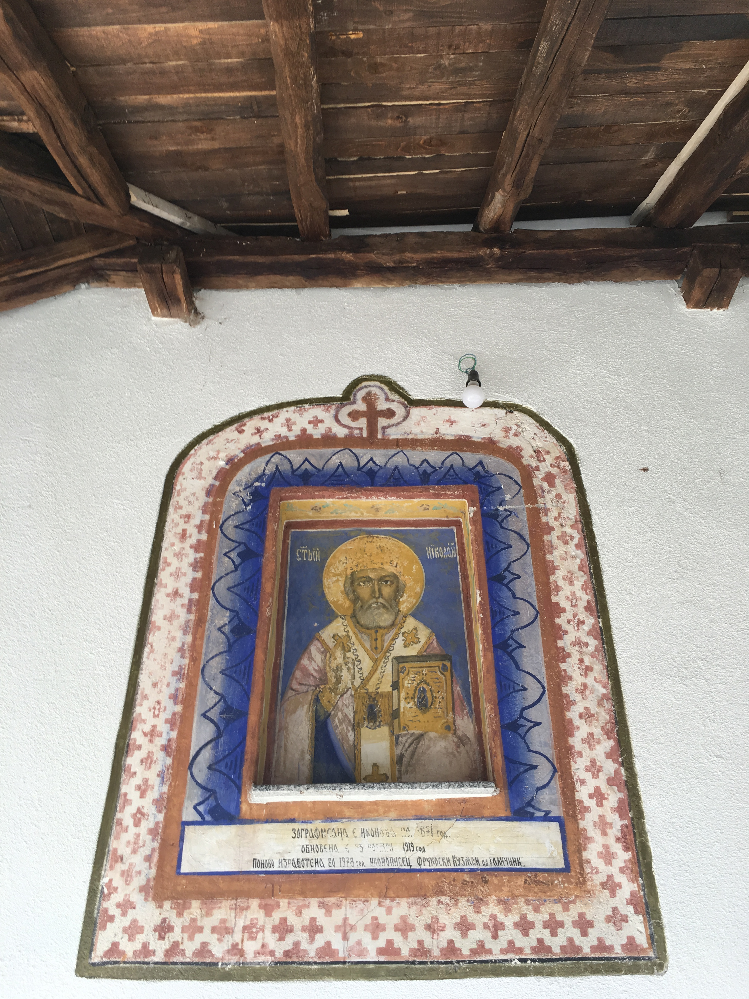 Wikiexpedition to Kopačka